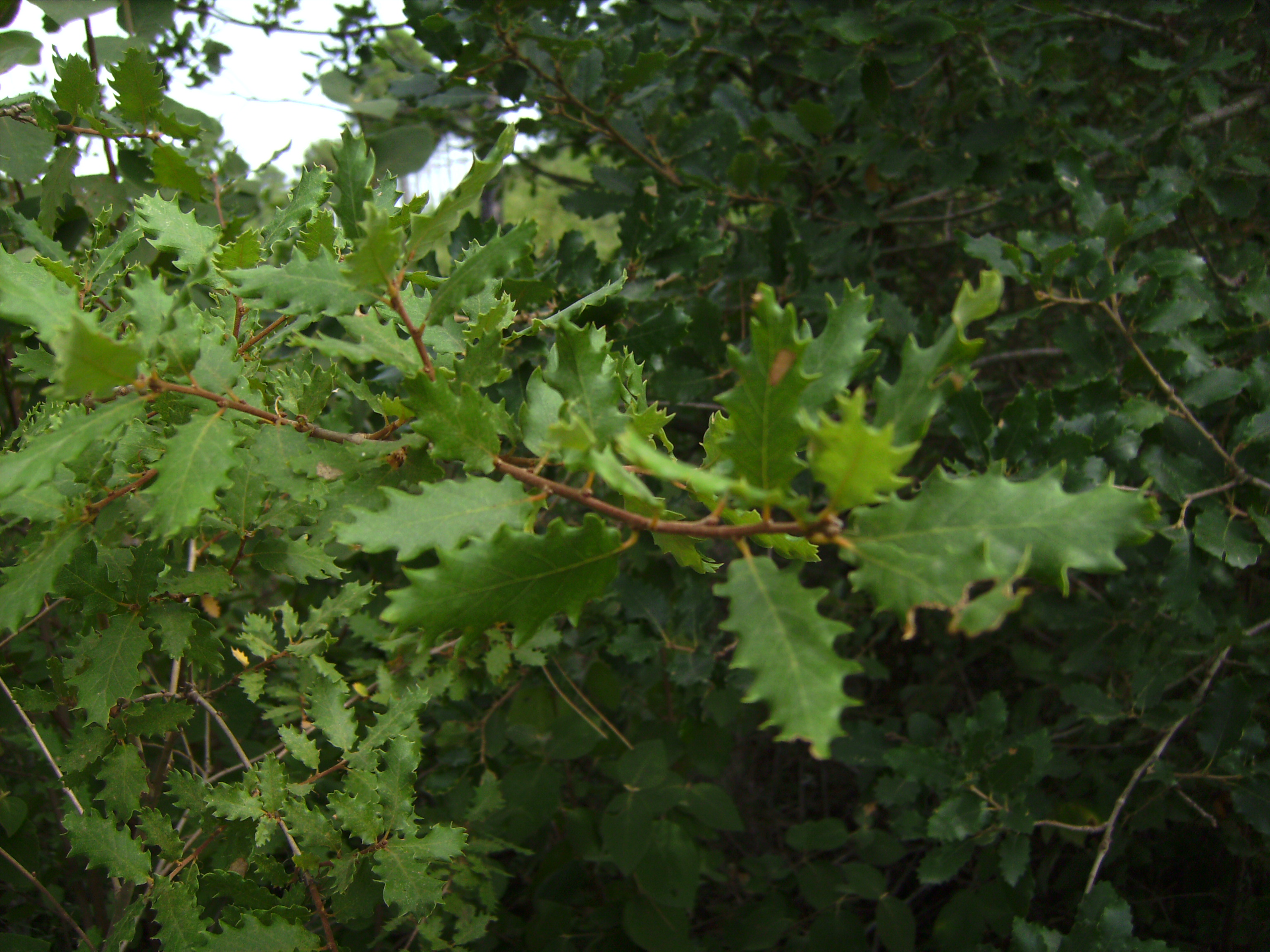 Quercus faginea, leaves, Castelltallat, Catalonia